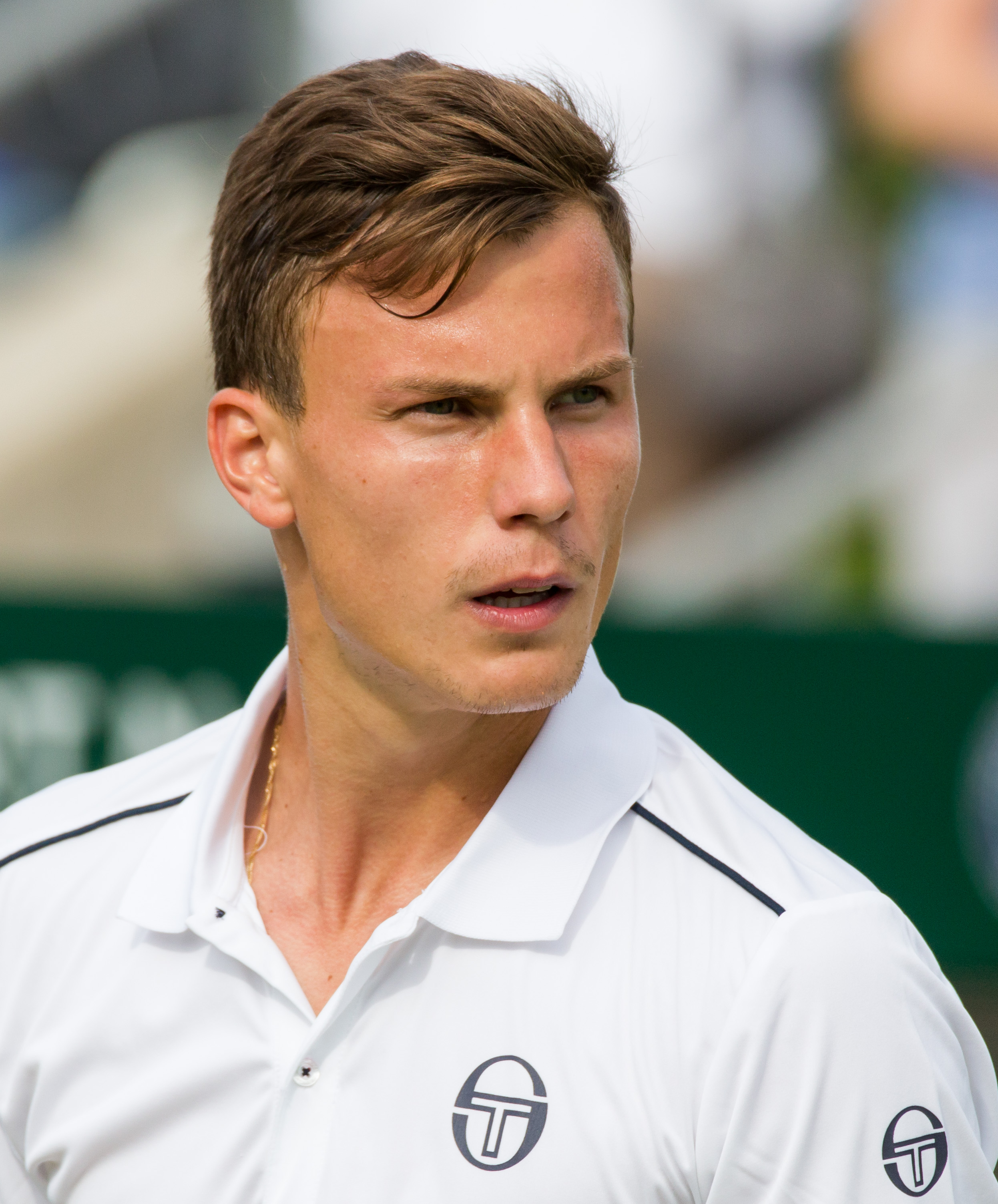 Márton Fucsovics competing in the second round of the 2015 Wimbledon Qualifying Tournament at the Bank of England Sports Grounds in Roehampton, England. The winners of three rounds of competition qualify for the main draw of Wimbledon the following week.